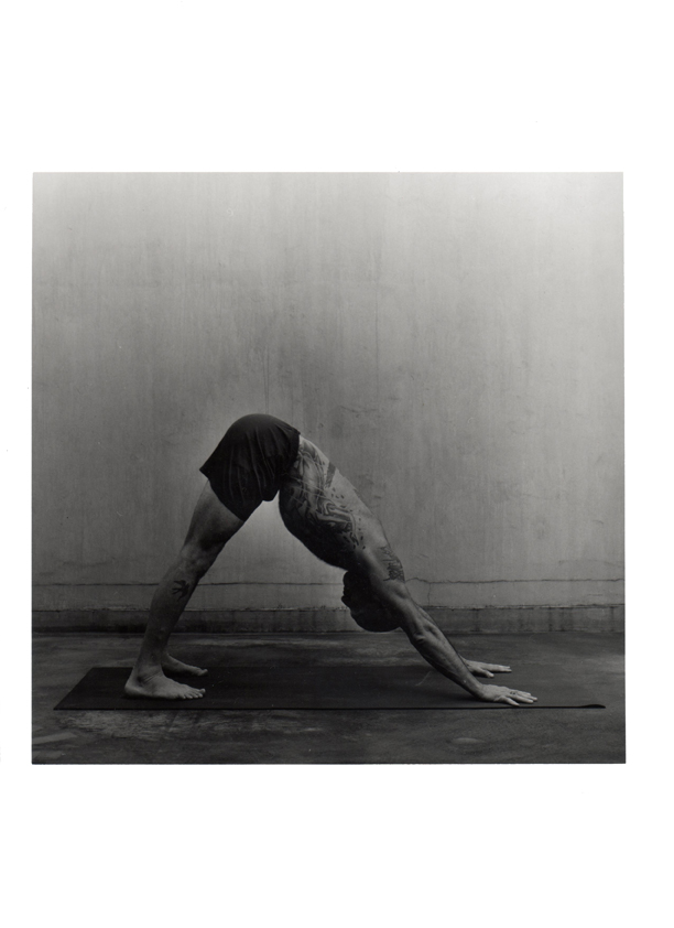 Barry Silver 2011